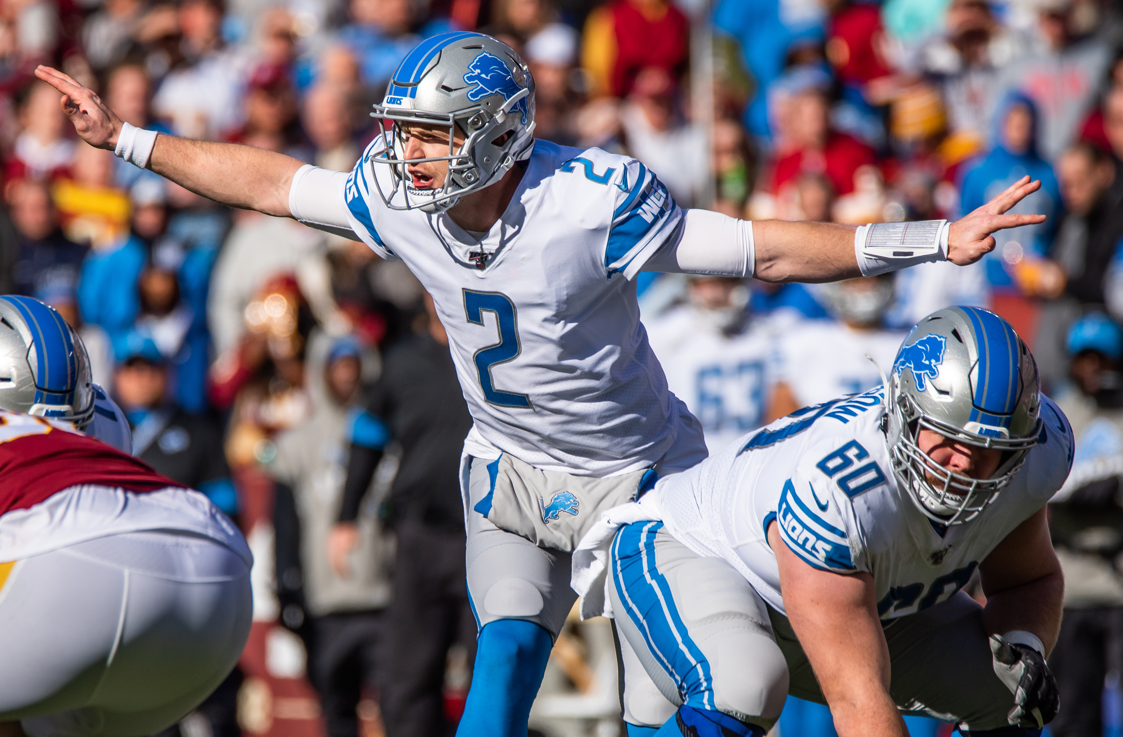 In 2019